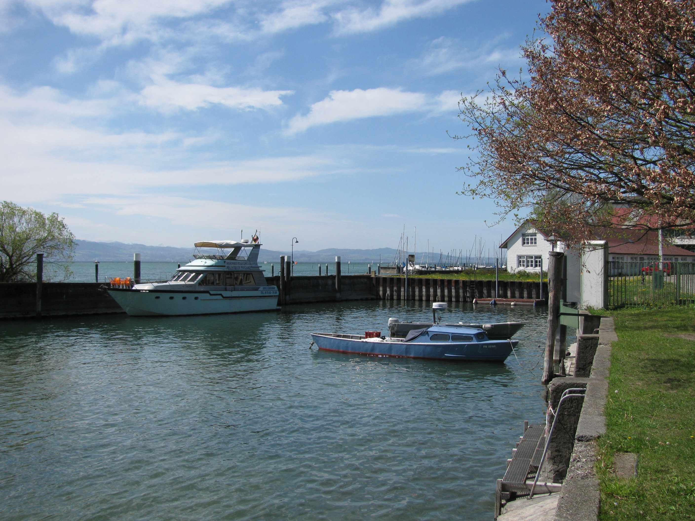 Germany - Baden-Württemberg - Bodenseekreis - Kressbronn am Bodensee: Bodan-Werft, east-side harbour